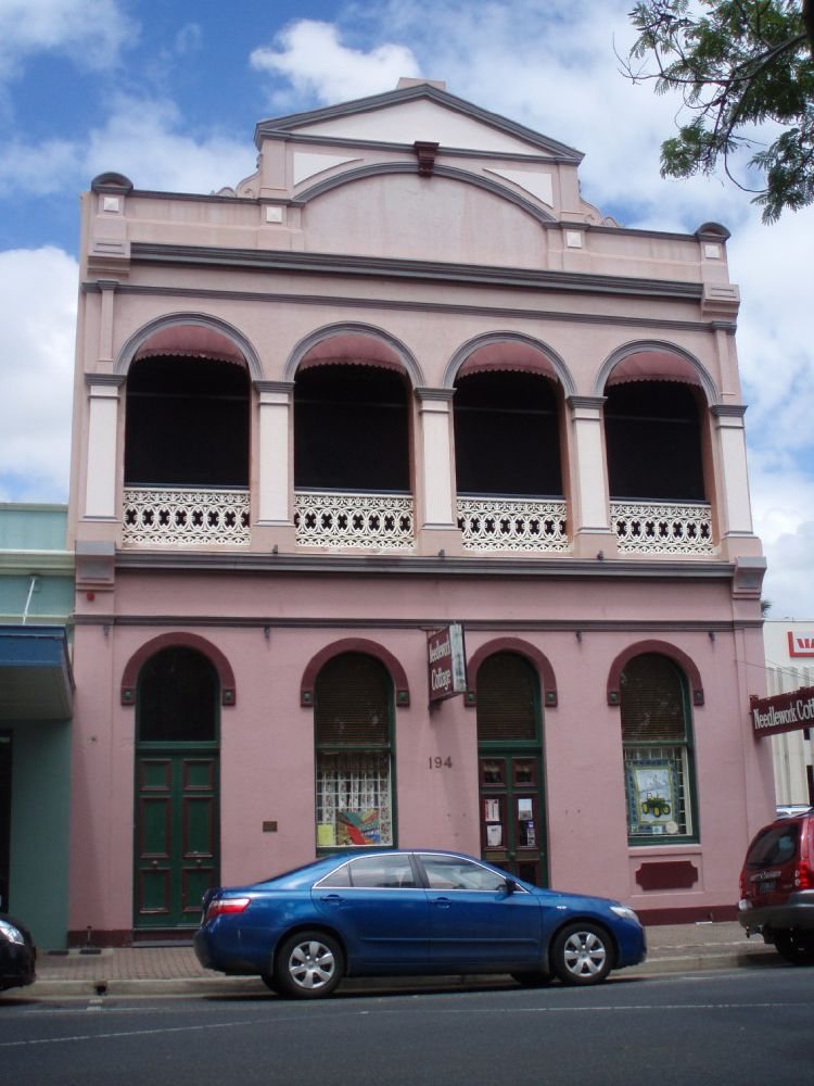 Royal Bank Building (former), from NE (2009)